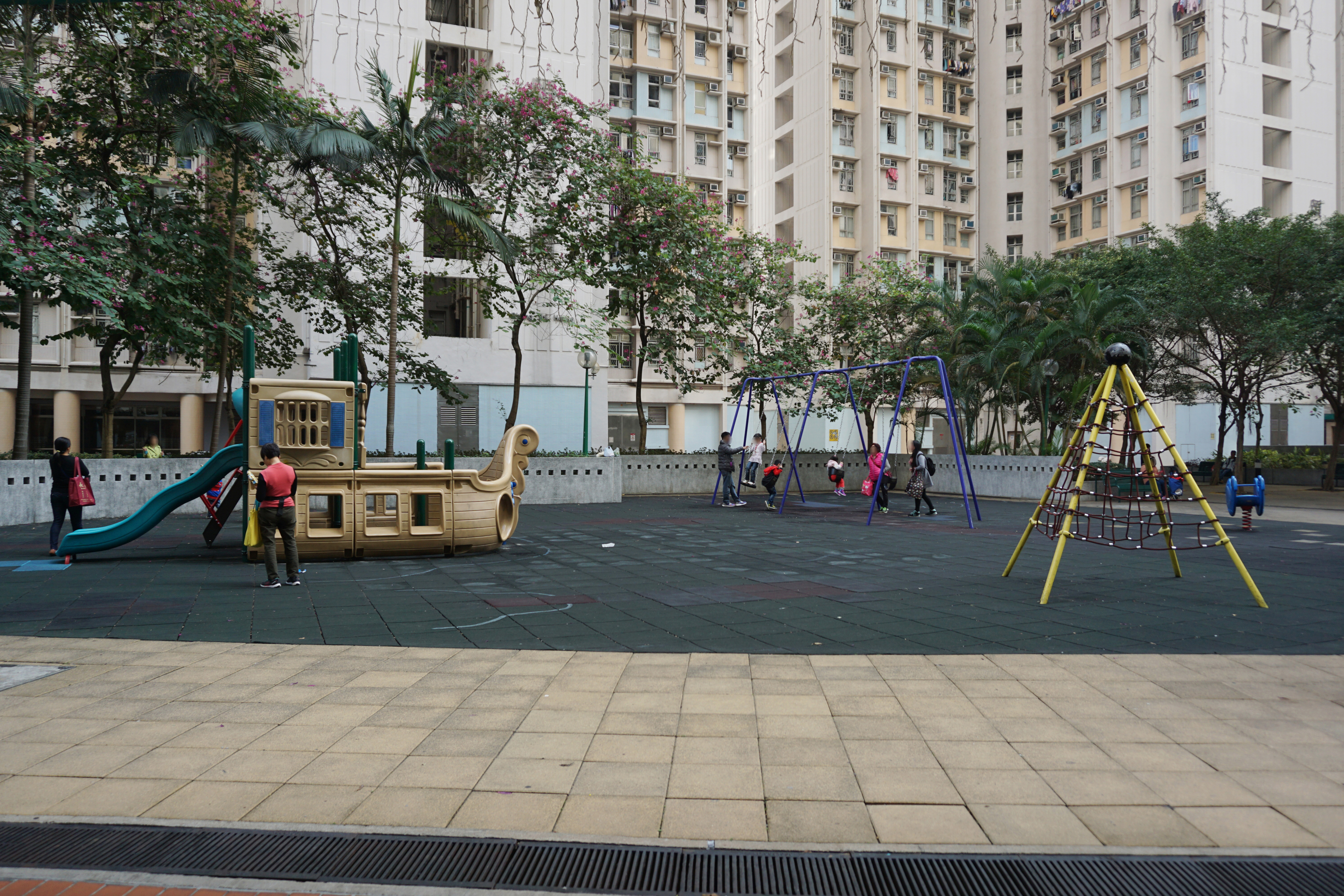 Tin Chung Court in Tin Shui Wai, Hong Kong.